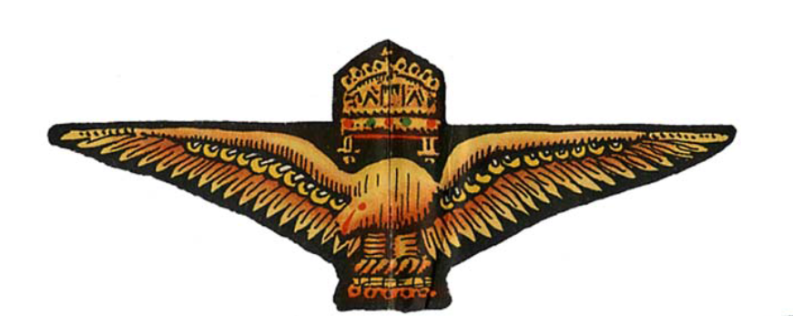 Royal Hungarian Air Force Pilots Badge drawing